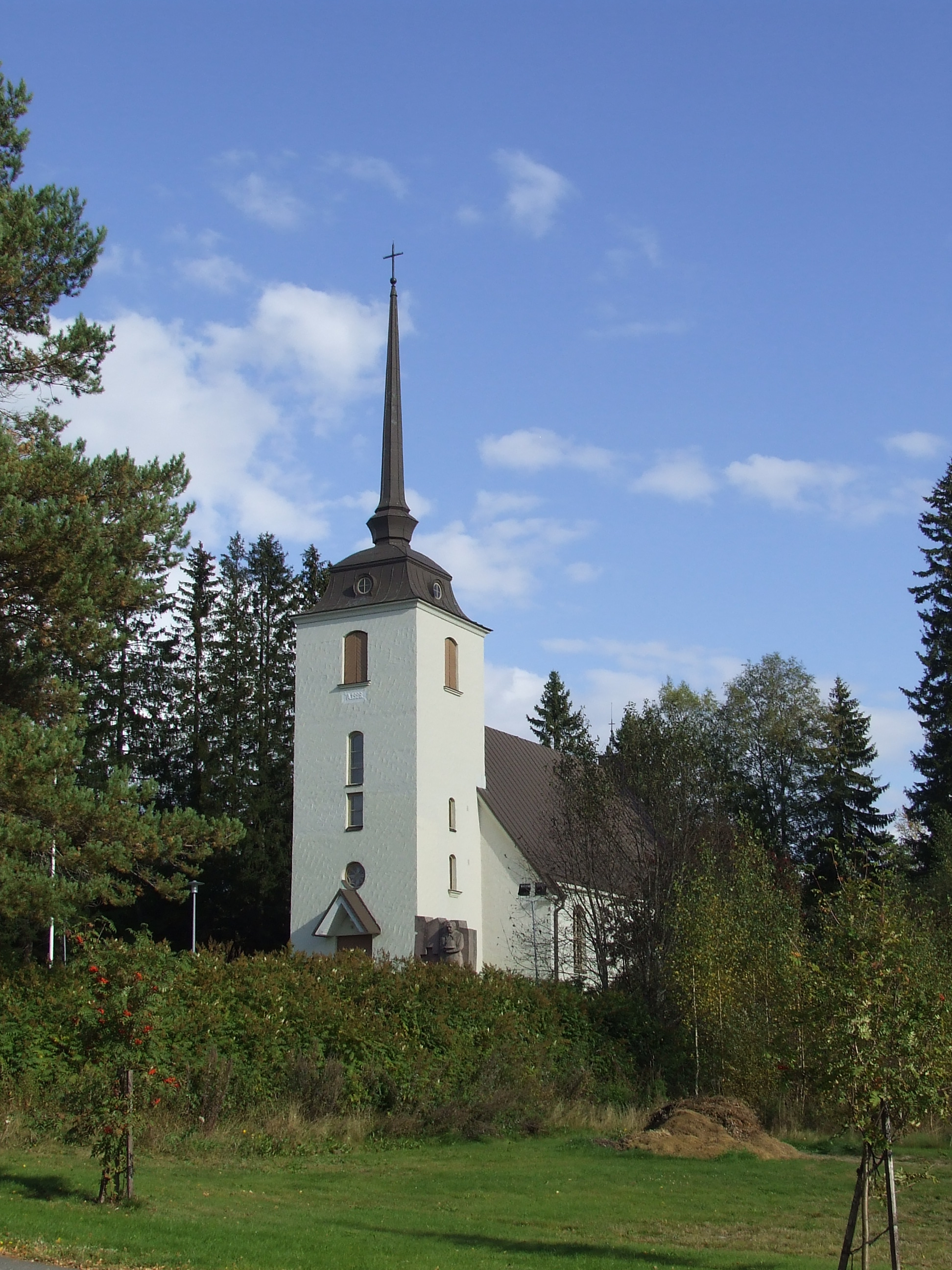 Pyhäselkä Church in Joensuu, Finland.